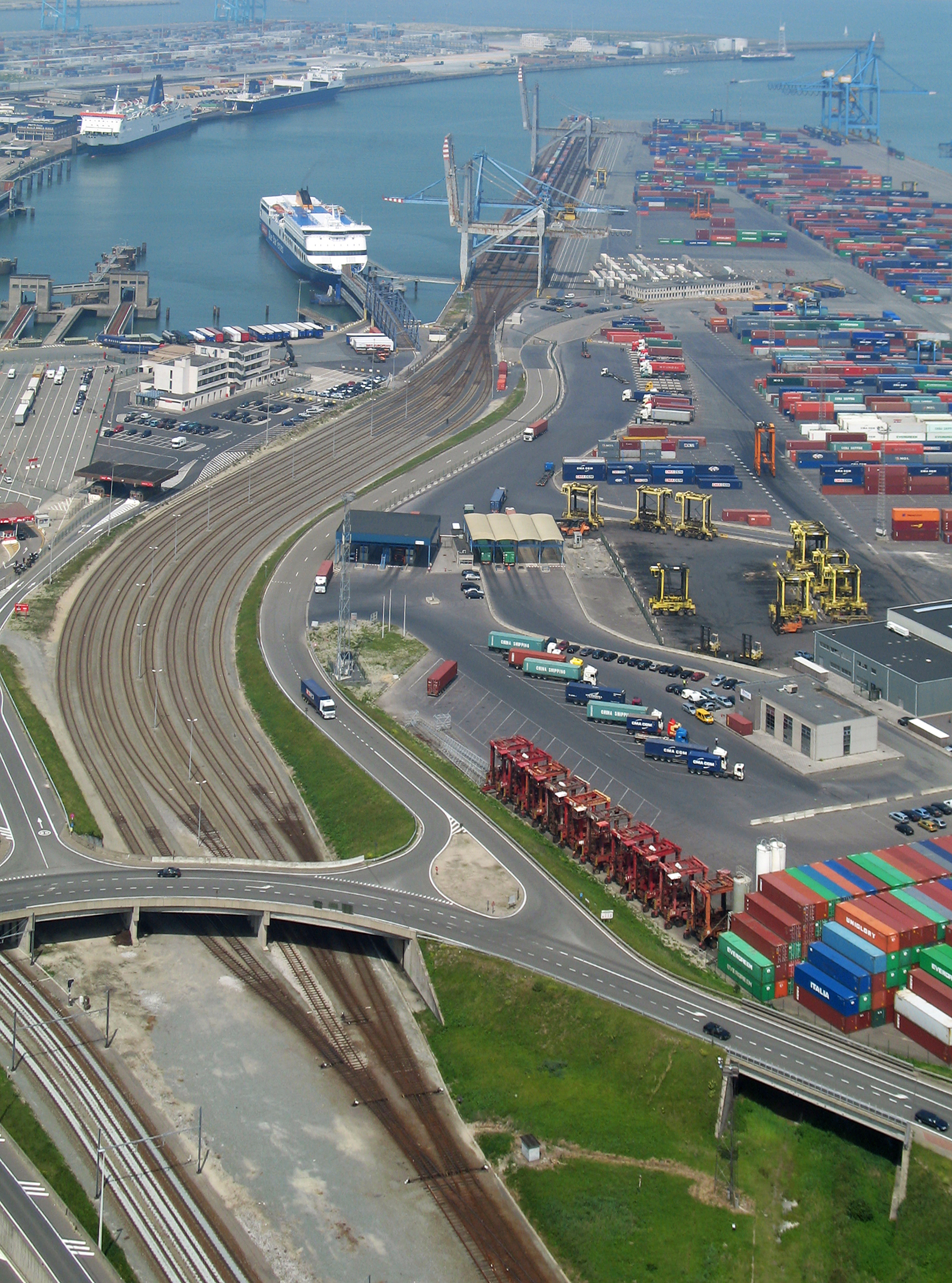 Rail yard "Westhoofd" in the port of Zeebrugge (Belgium)